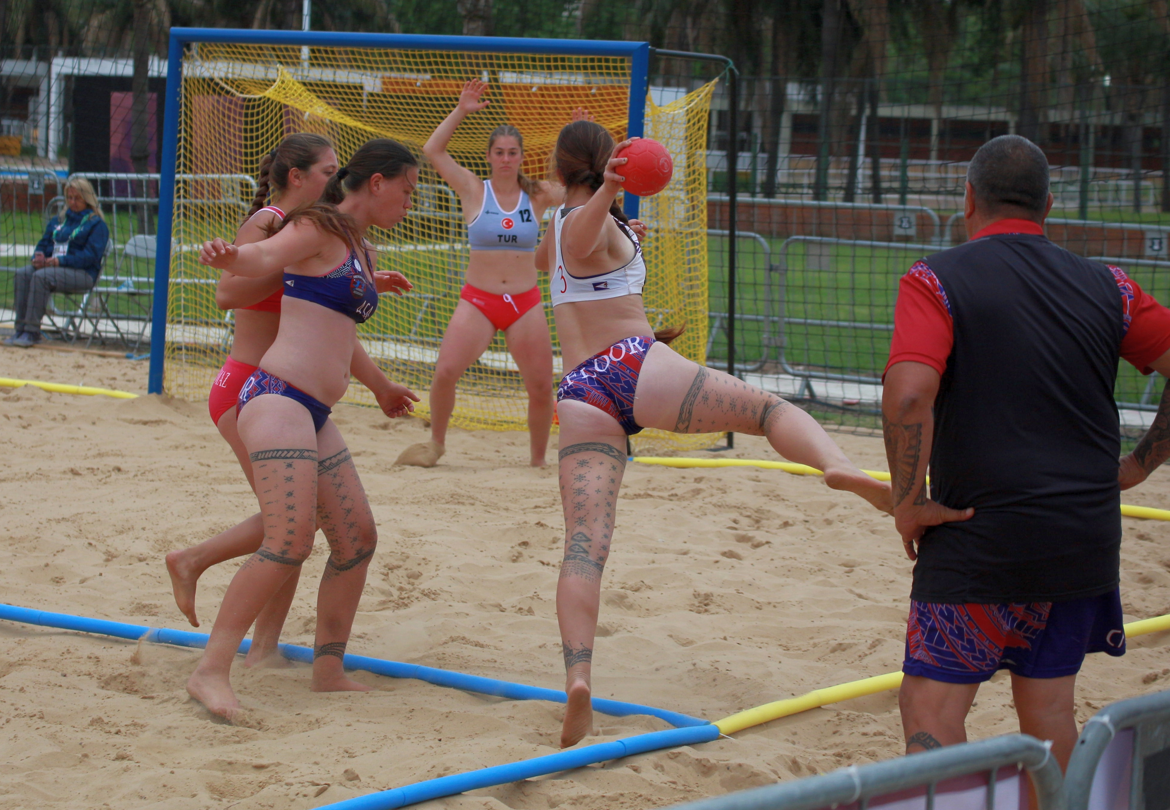 Beach handball at the 2018 Summer Youth Olympics at 11 October 2018 – Girls Consolation Round – American Samoa-Turkey 0:2